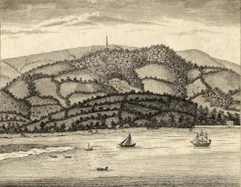 'View of Mamhead from Exmouth Devon', showing the Mamhead Obelisk, undated copper line engraving, 152 x 193mm, Devon Libraries Local Studies Service ref. no. SC1676